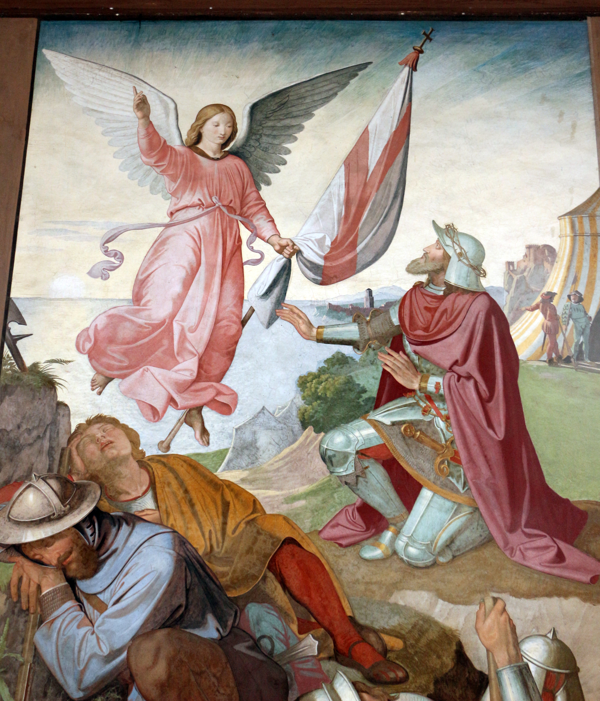 Casa Massimo frescos - stanza del Tasso